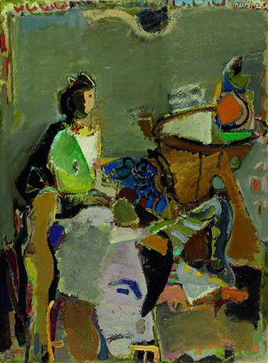 Painting of Moshe Rosenthalis.